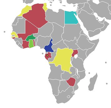 Final results.